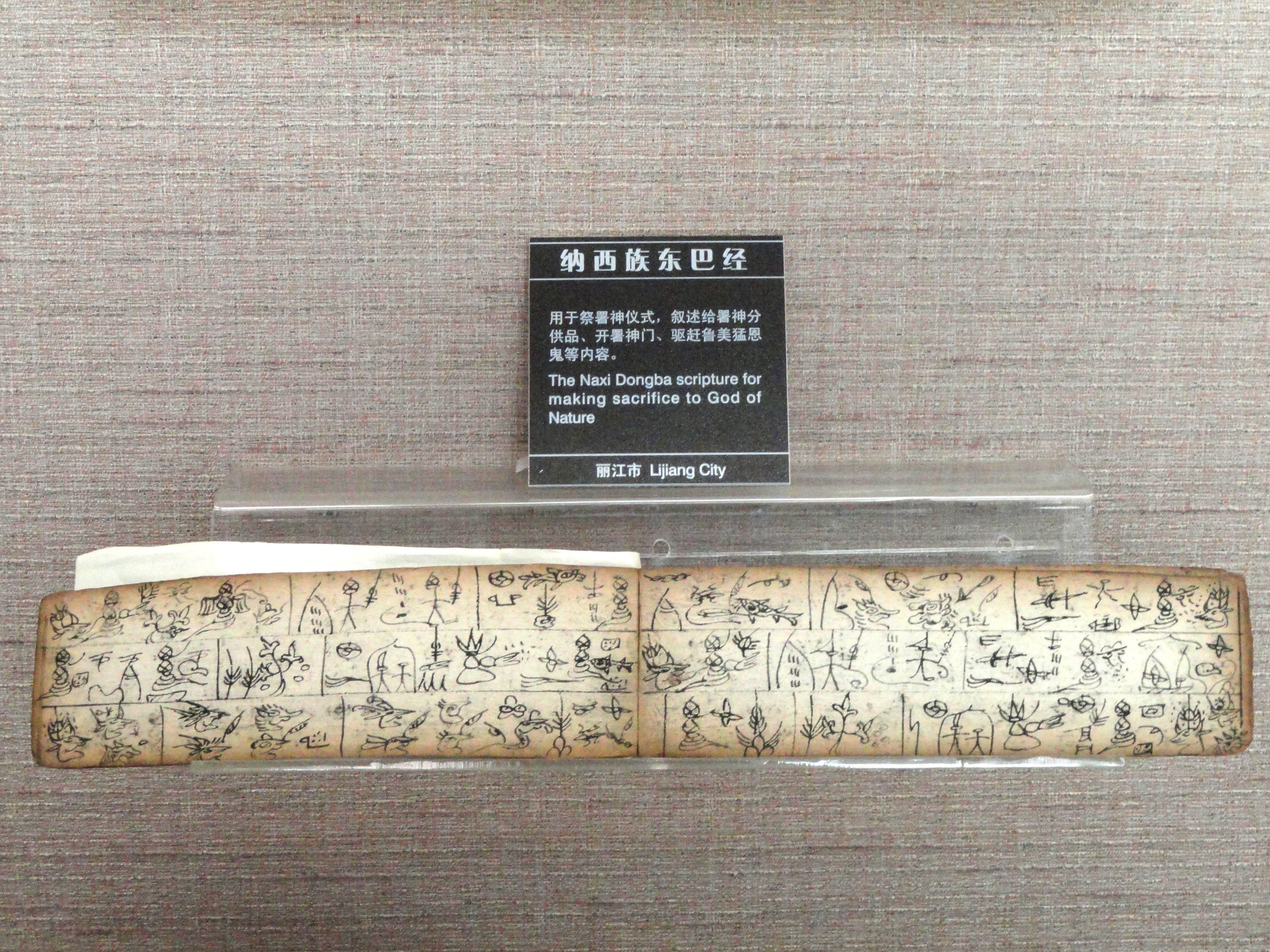 Naxi Dongba document. Manuscripts / writing systems in the Yunnan Nationalities Museum, Kunming, Yunnan, China.